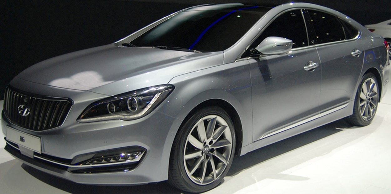 Hyundai AG